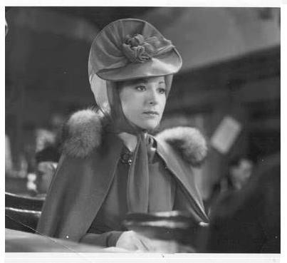 Emperatriz Carvajal- actriz